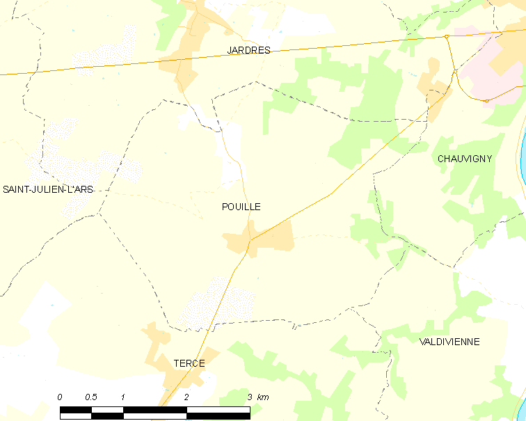 Map of French municipality Pouillé